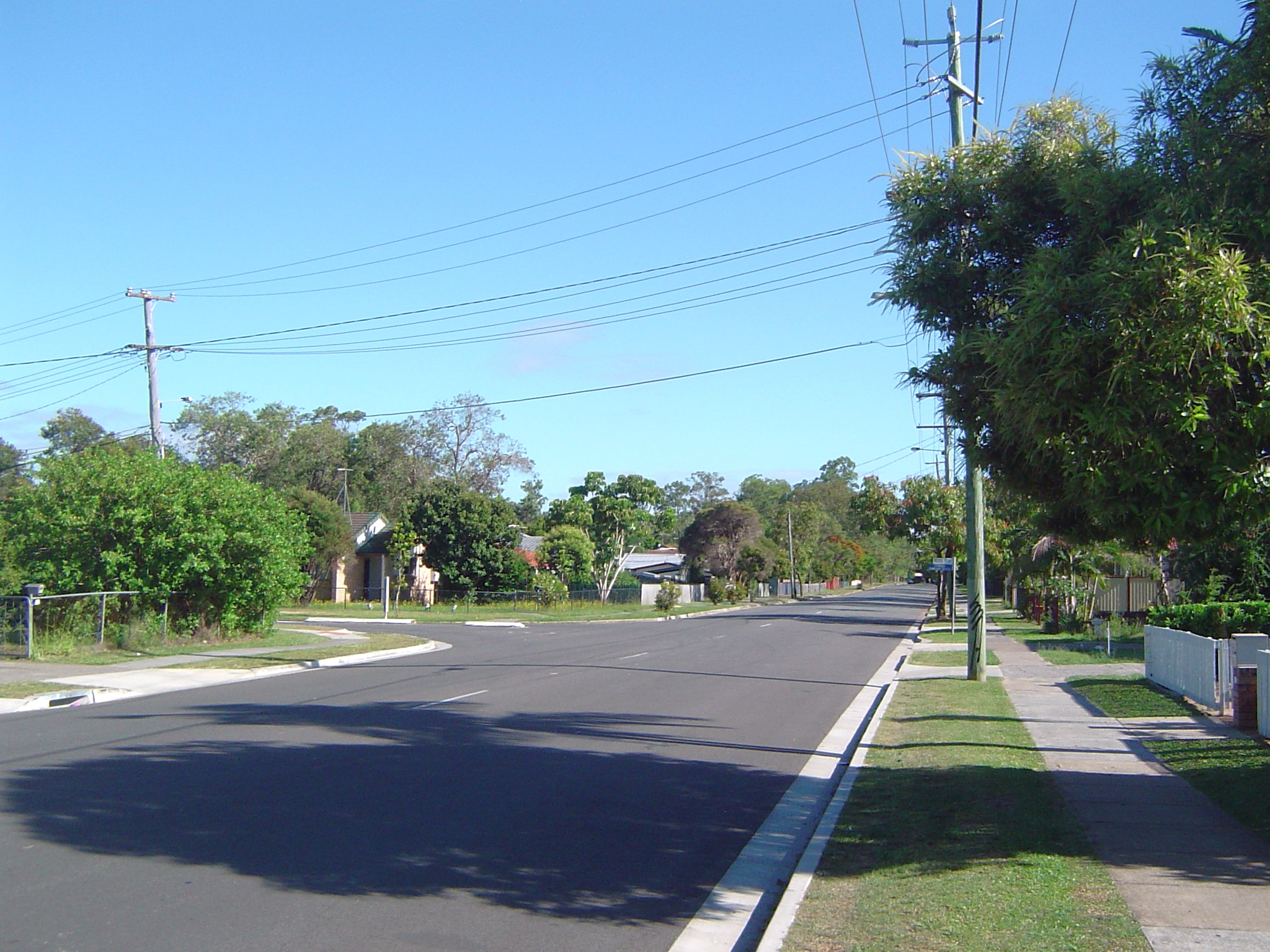 Photo of Haig Road near Sarah Street in Loganlea, City of Logan, Queensland, Australia.